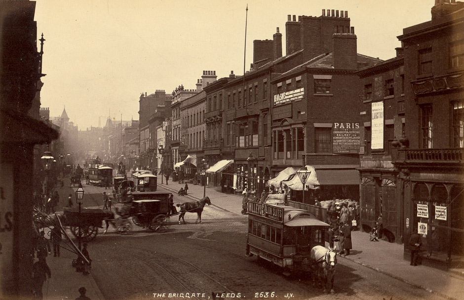 The Briggate, Leeds. Albumen print. Circa 13 x 20 cm.